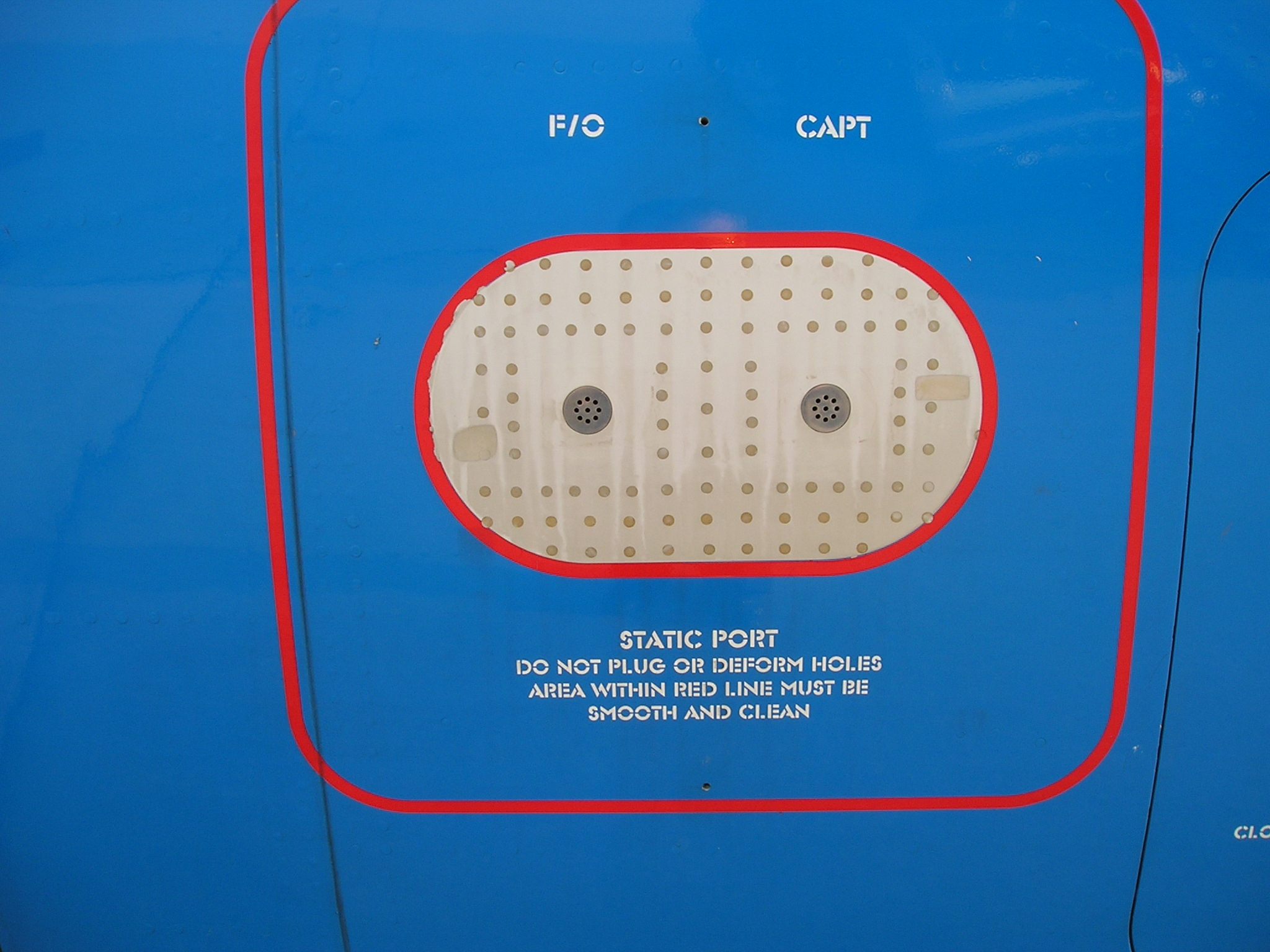 Static port on an aircraft